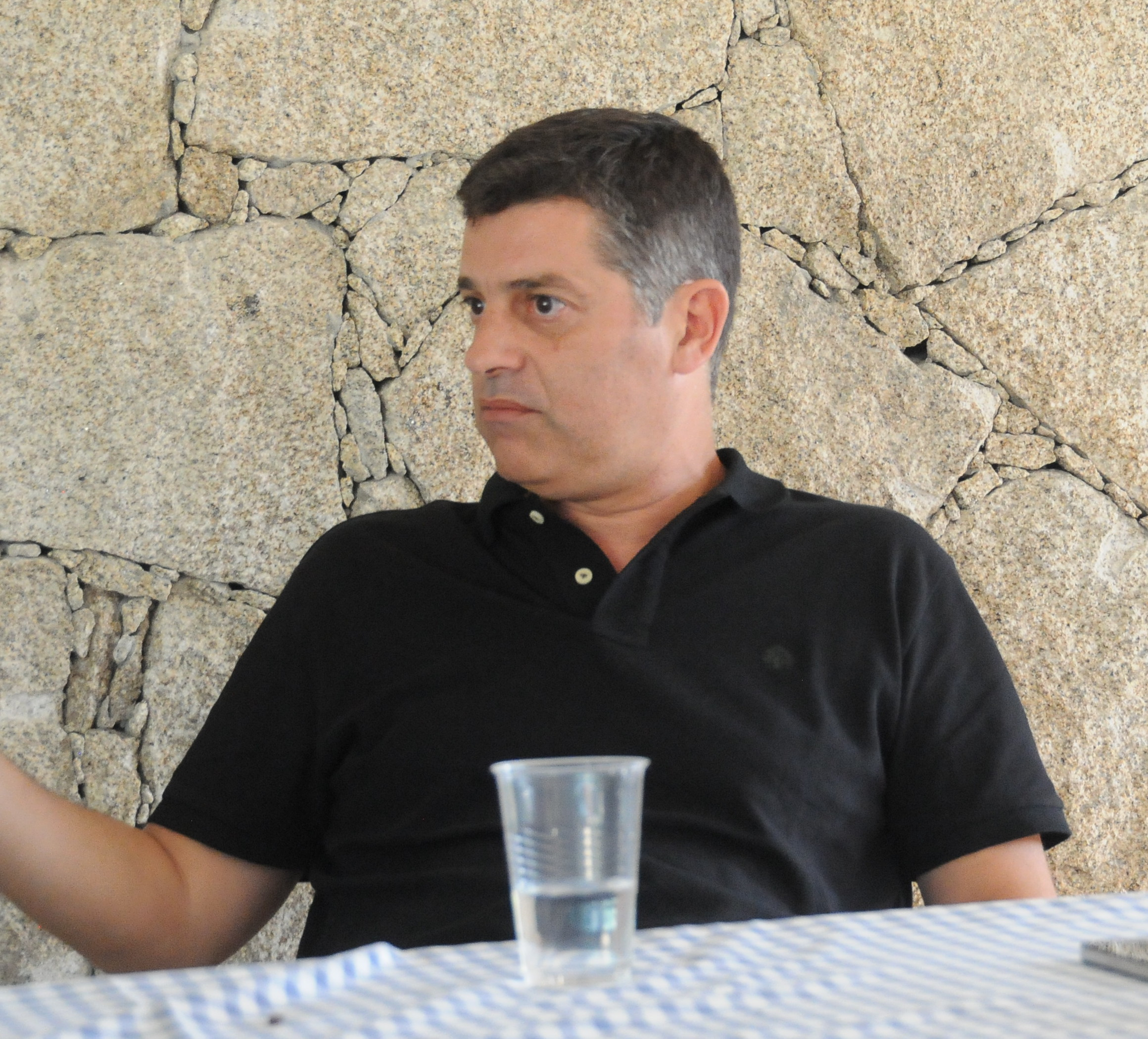 Manuel Caldeira Cabral portuguese minister in 2015 in Braga.